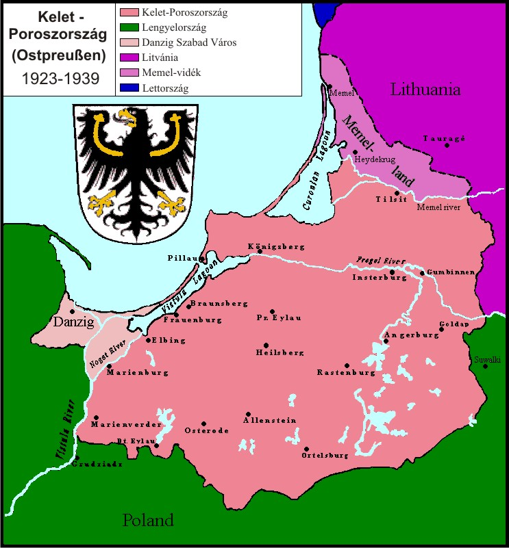 Map of East Prussia 1923-1939